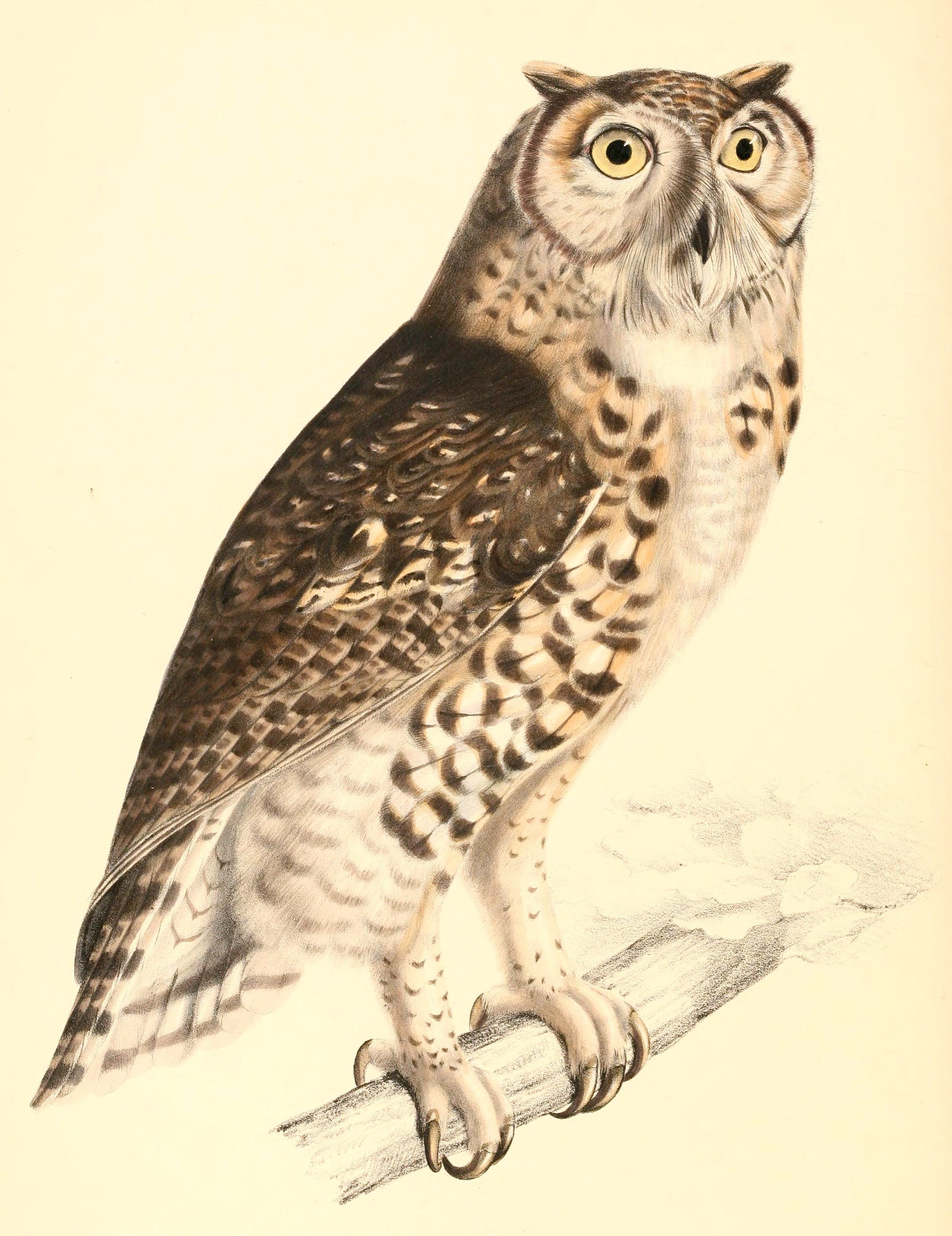 « Bubo capensis » = Bubo capensis (Cape Eagle-Owl) - young